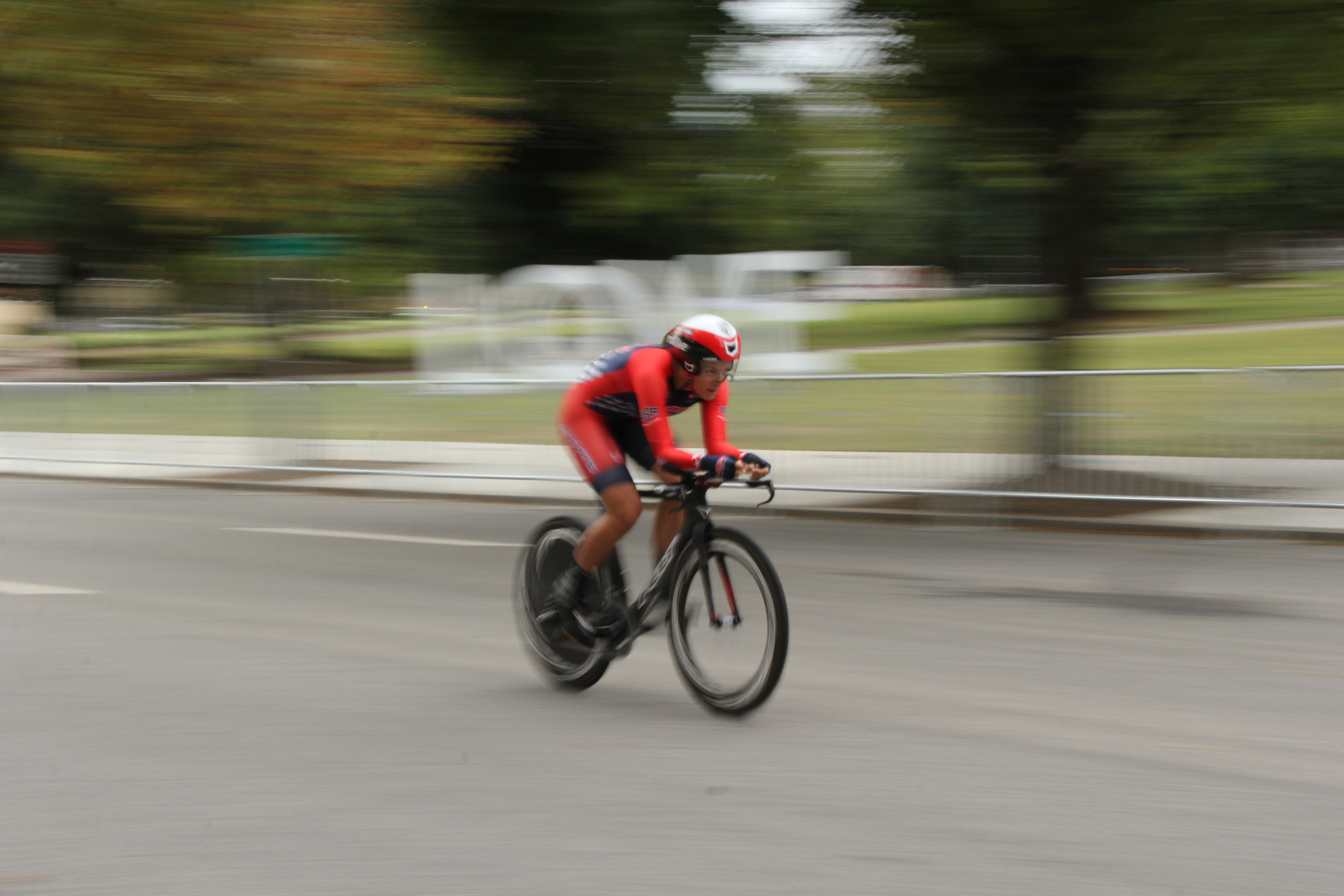 The world has come to Richmond. Welcome! Bienvenidos! Willkommen! 2015 UCI Road World Championships, Women's junior time trial, in Richmond, United States